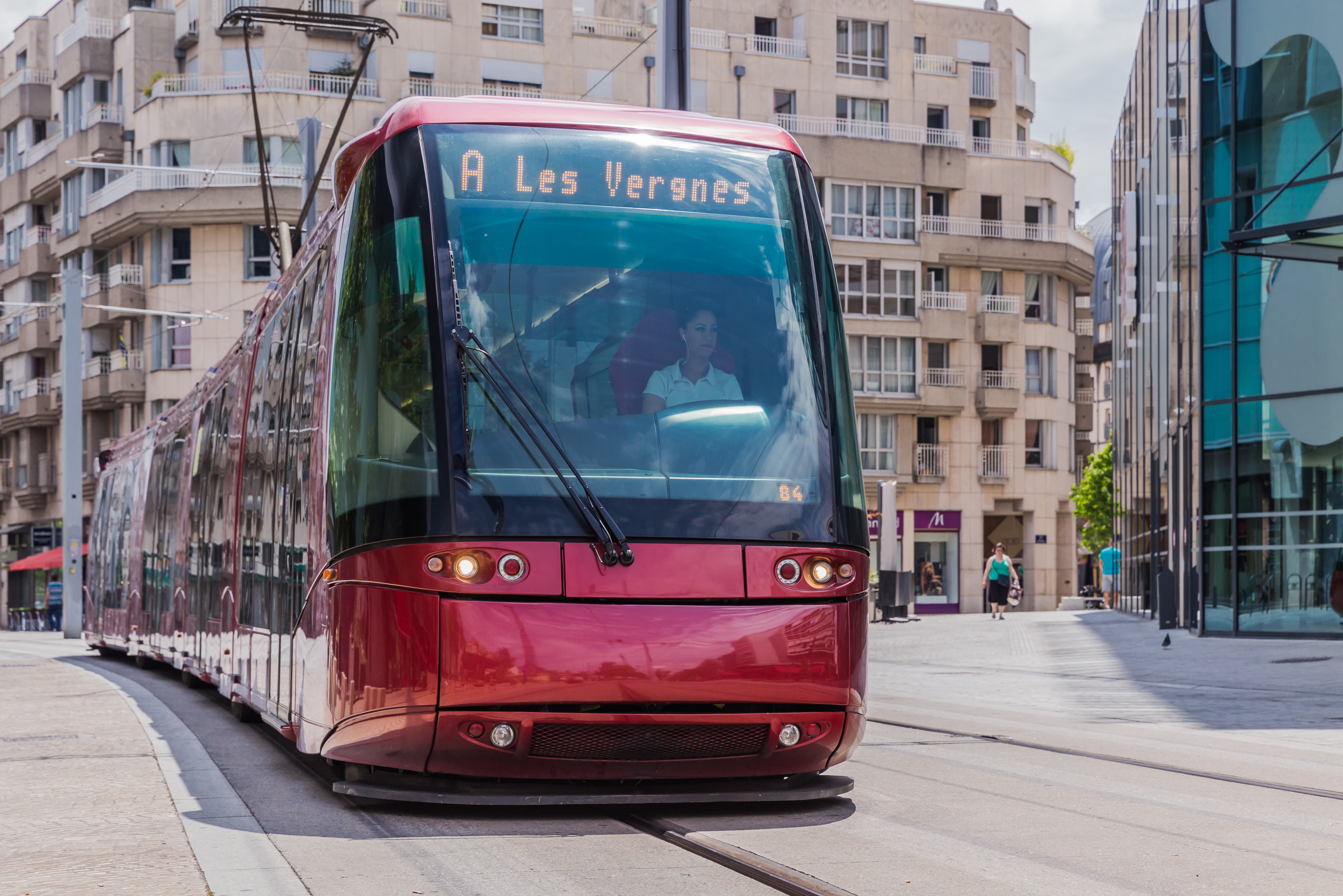 Clermont-Ferrand tramway of type Translohr STE4 in France.